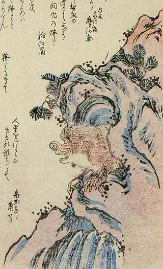 Hihi (a baboon monster) from Kyōka Hyaku Monogatari